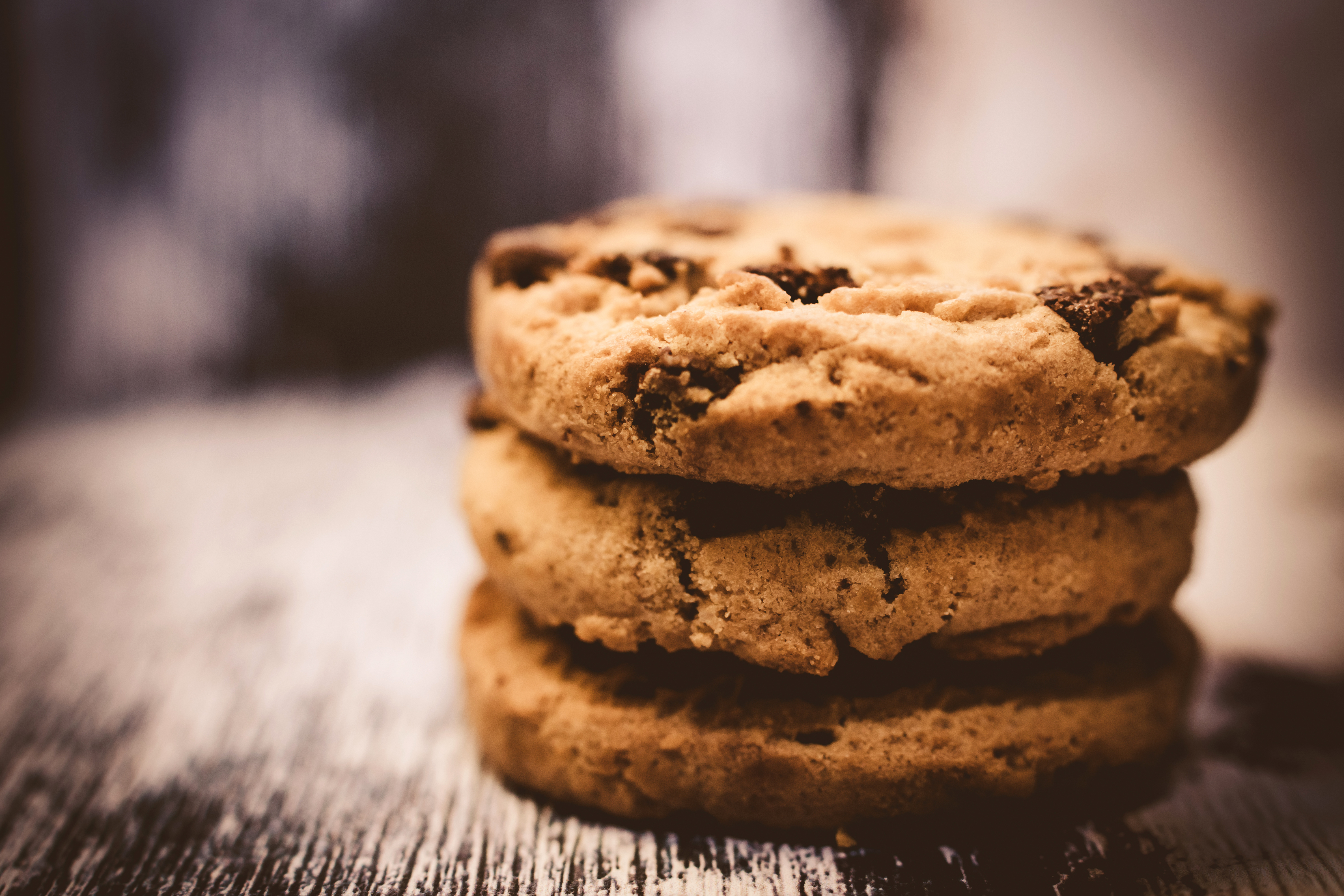 Stack of choc-chip cookies